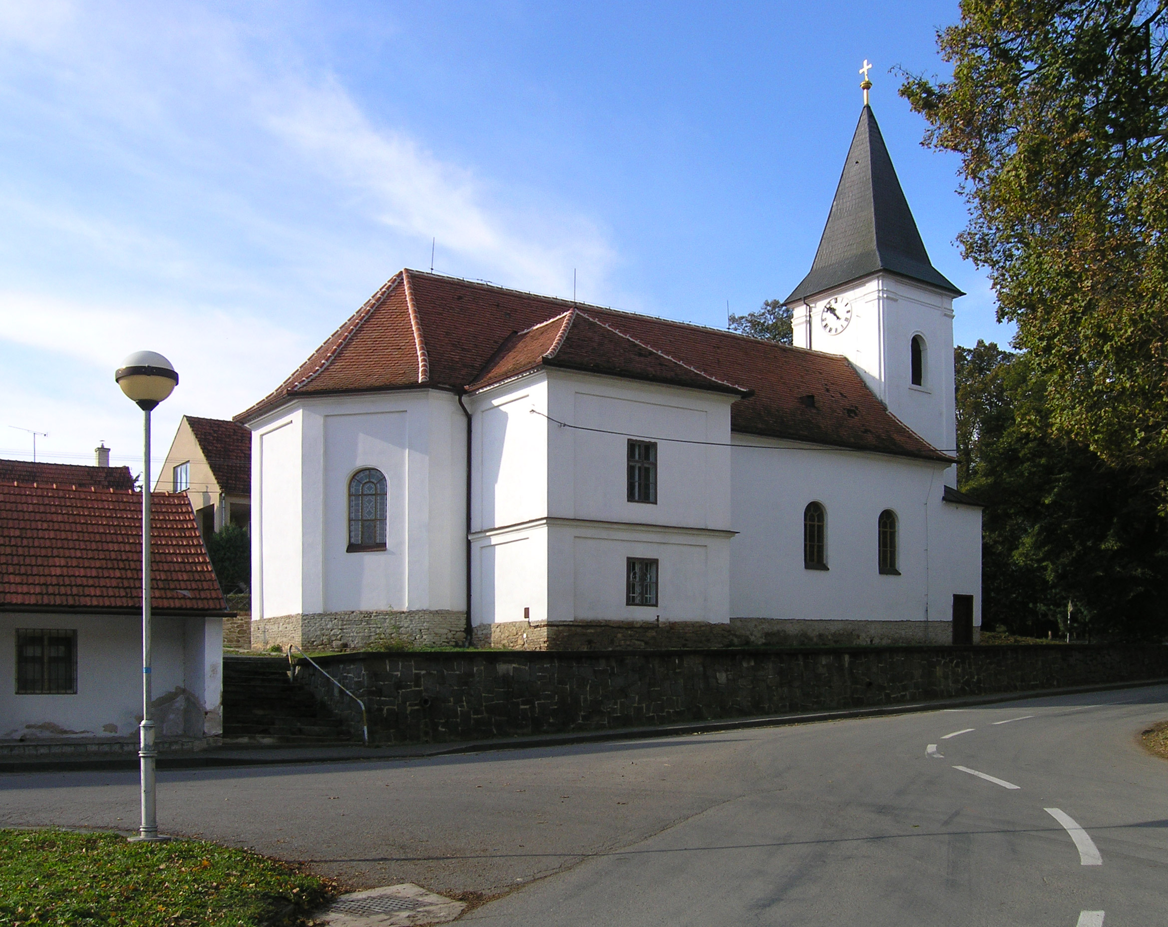 Church in Diváky, Czech Republic